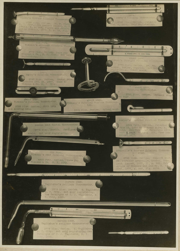 Best viewed in Large size. Clinical thermometers, circa 1800. Selected by Kathleen.